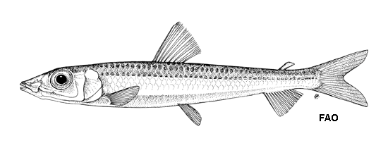 Argentina sphyraena picture.